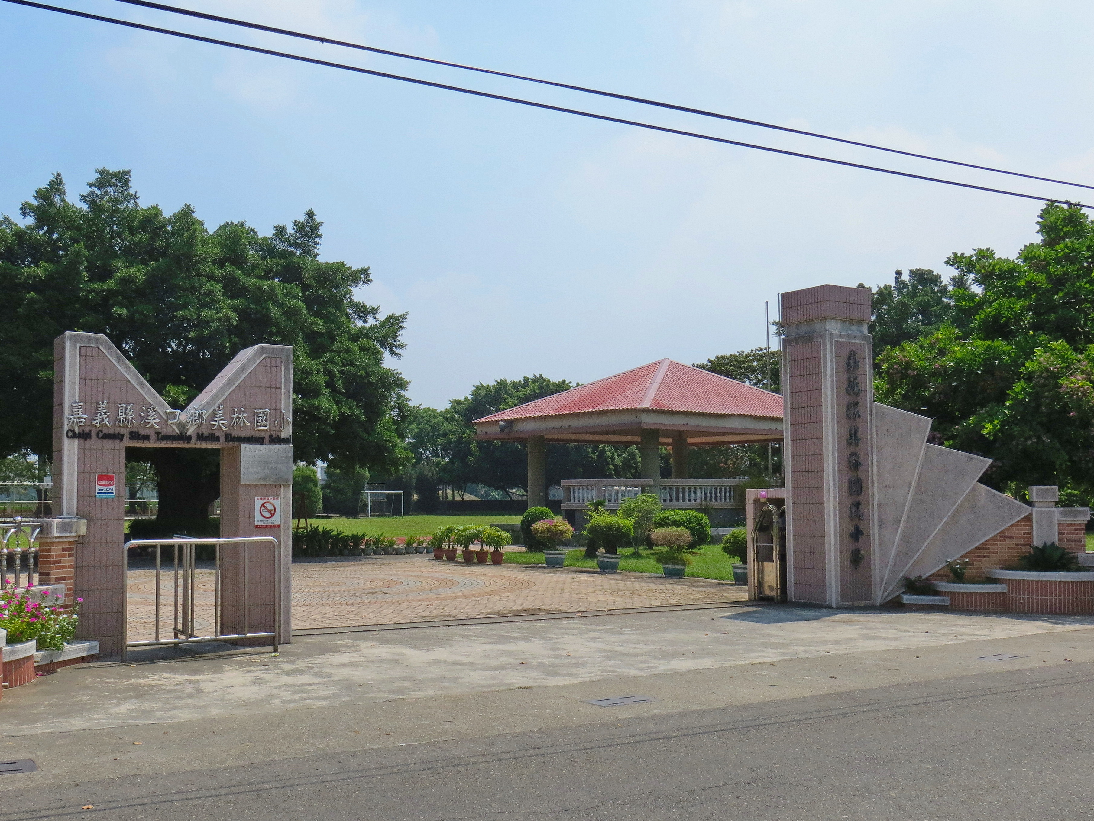 Chiayi County Sikou Township Meilin Elementary School, No.78-3, Meibei Village, Sikou Township, Chiayi County, Taiwan.